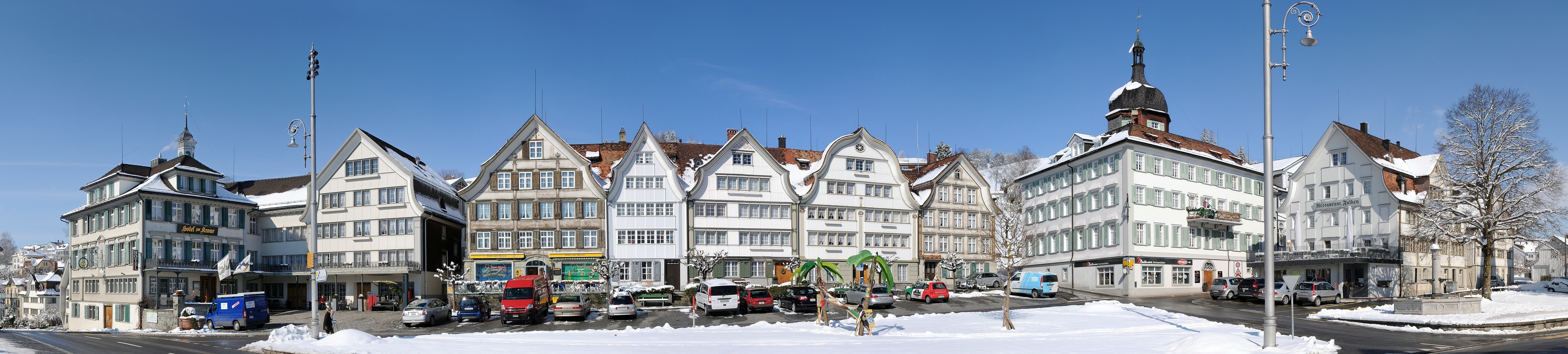 Gais is a municipality in the canton of Appenzell Ausserrhoden in Switzerland.